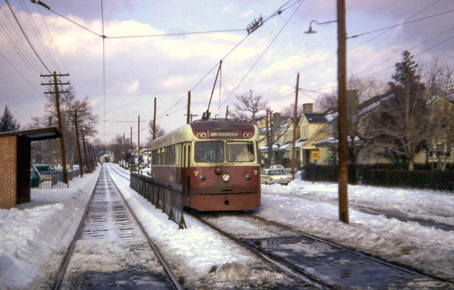 A "Brilliner" tram, car 7, on the former Ardmore line of the Philadelphia Suburban Transportation Company, at Belmont Avenue in December 1966.